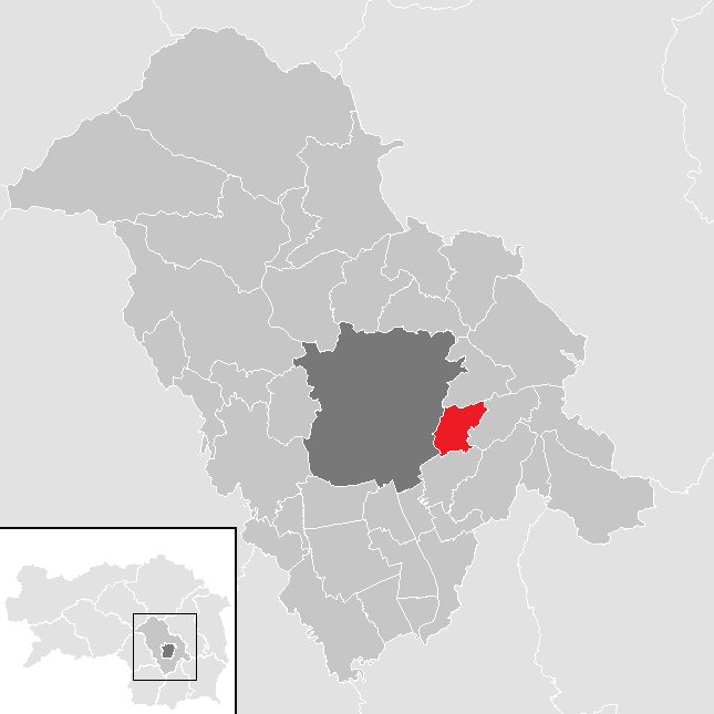 District Graz-Umgebung, Styria